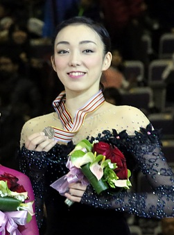 The ladies podium at the 2016 Four Continents Championships. From left: Mirai Nagasu (2nd), Satoko Miyahara (1st), Rika Hongo (3rd)